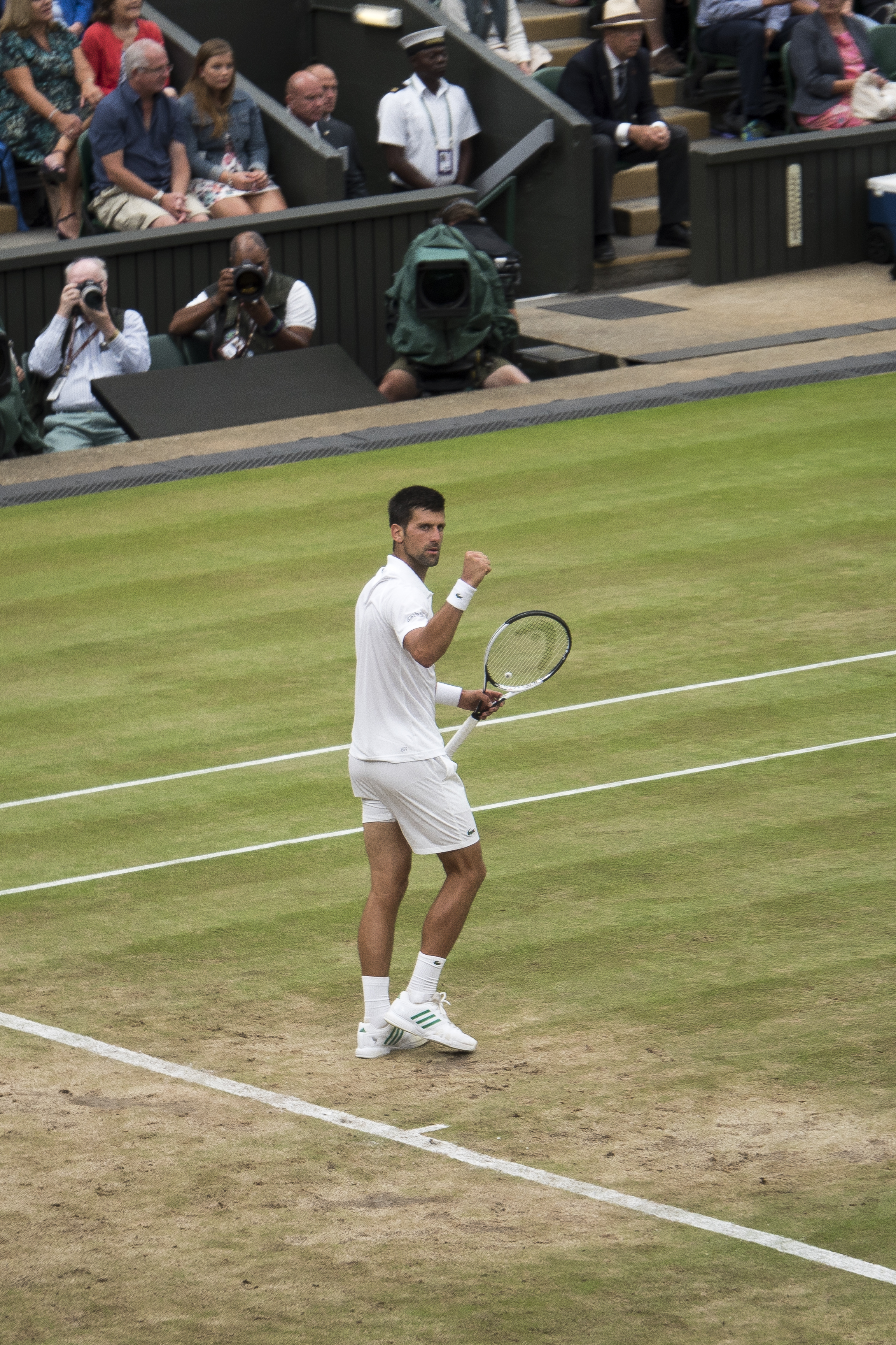 Wimbledon 2017